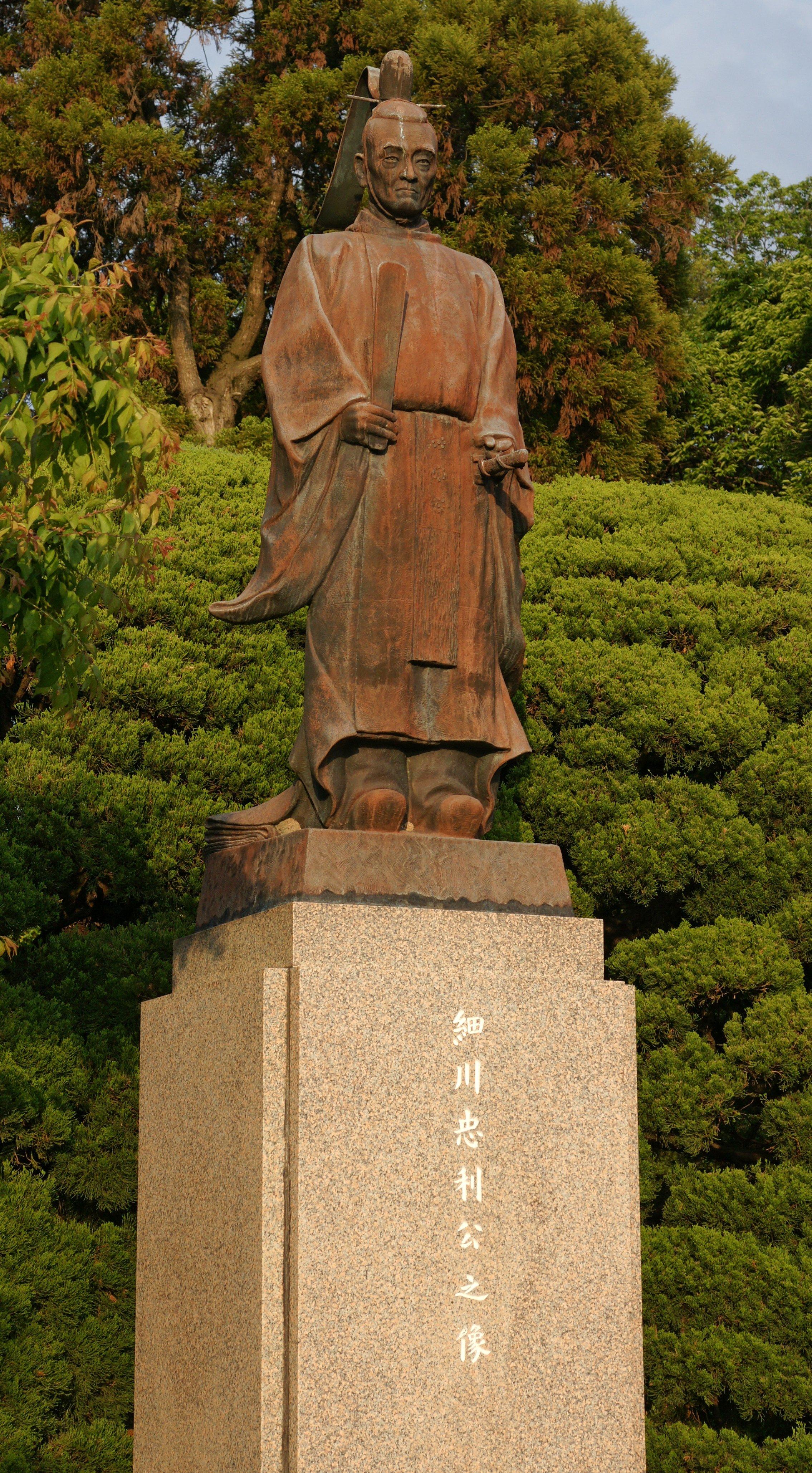 Statue of Hosokawa Tadatoshi at Suizen-ji Jōju-en, Kumamoto, Japan. Cropped version.